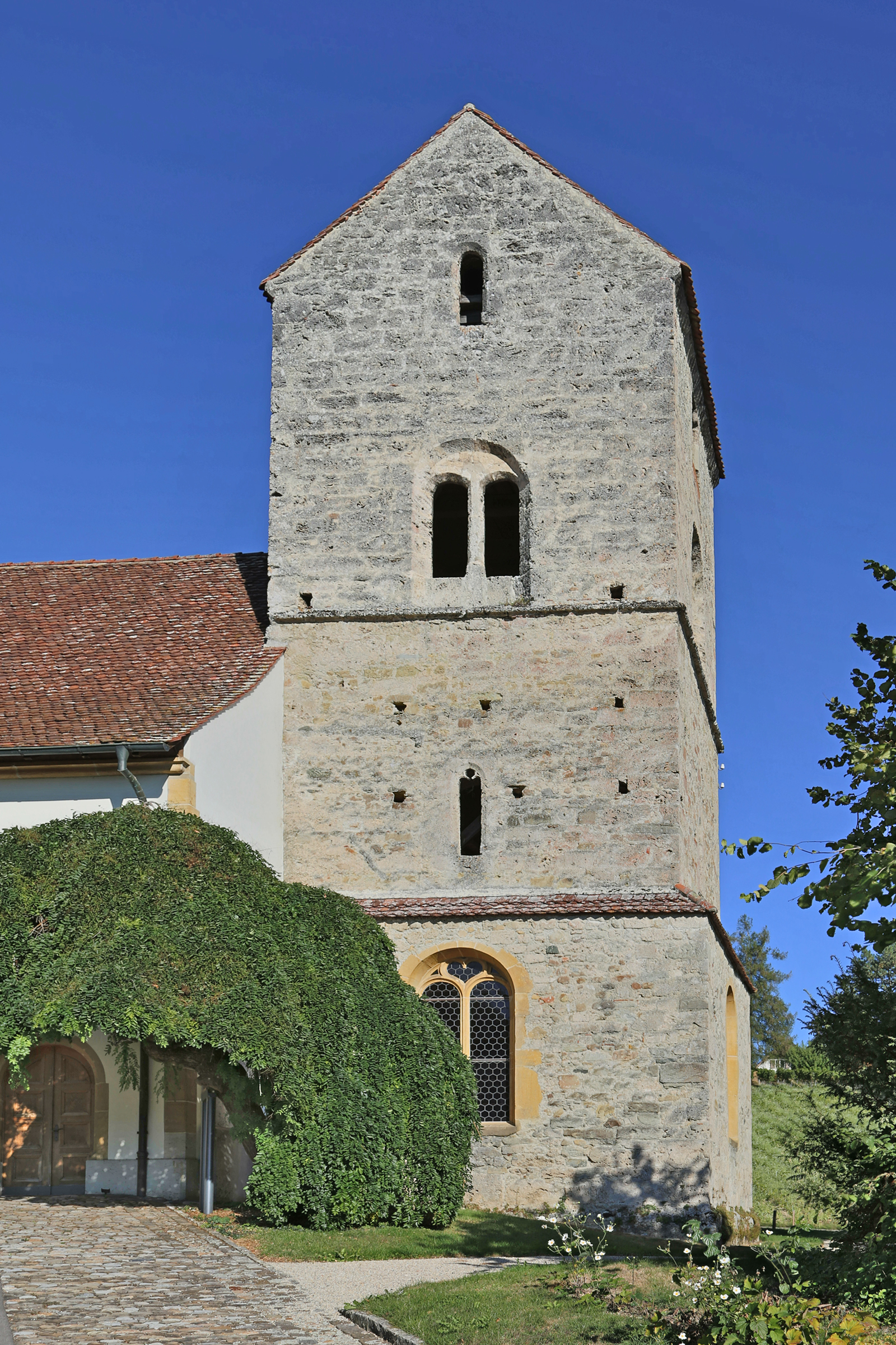 Ulrich Church in Erlach BE, a small town on Lake Biel in the canton of Bern, Switzerland.